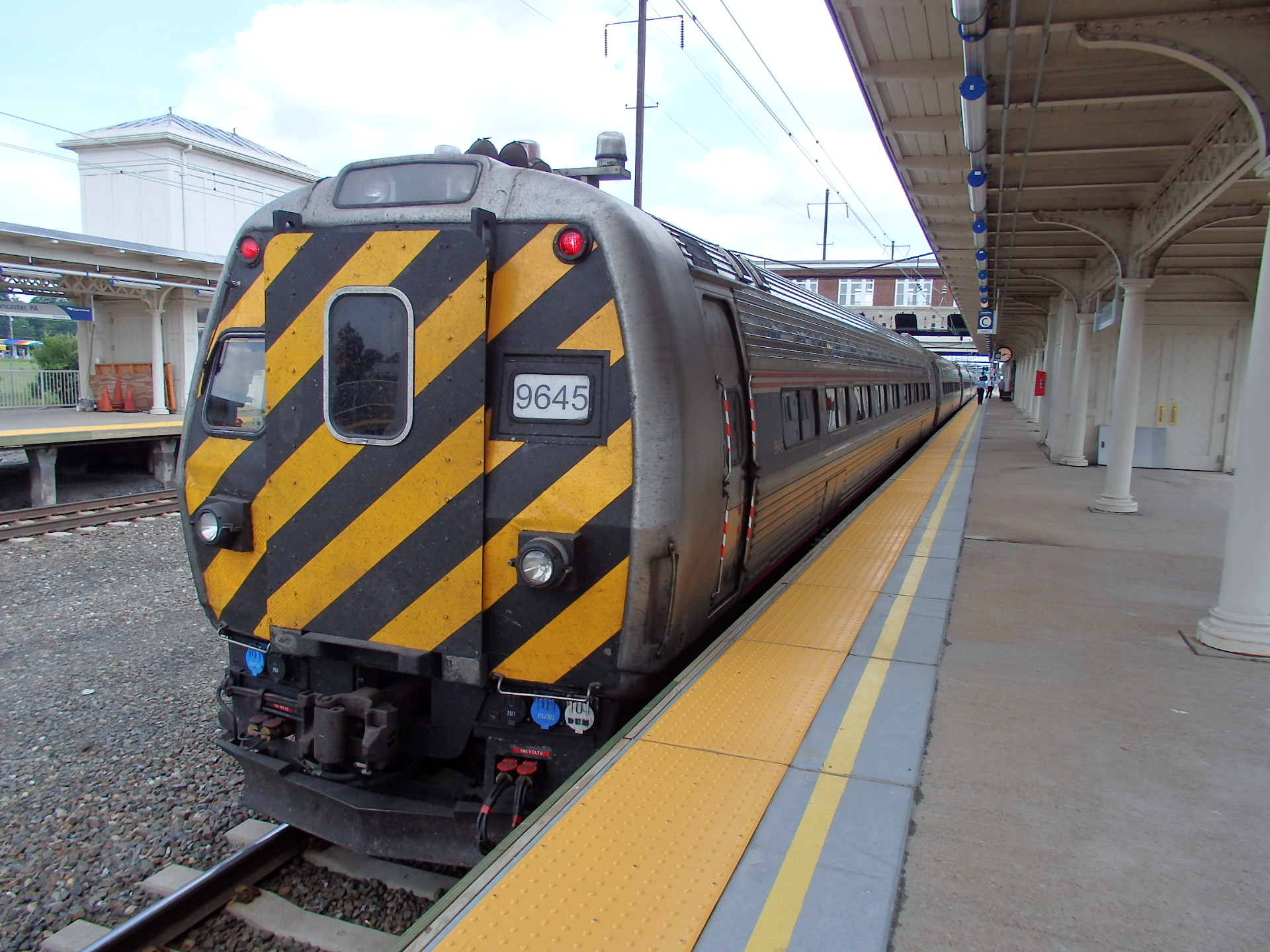 Former Metroliner cab car at Lancaster, Pennsylvania in 2017.